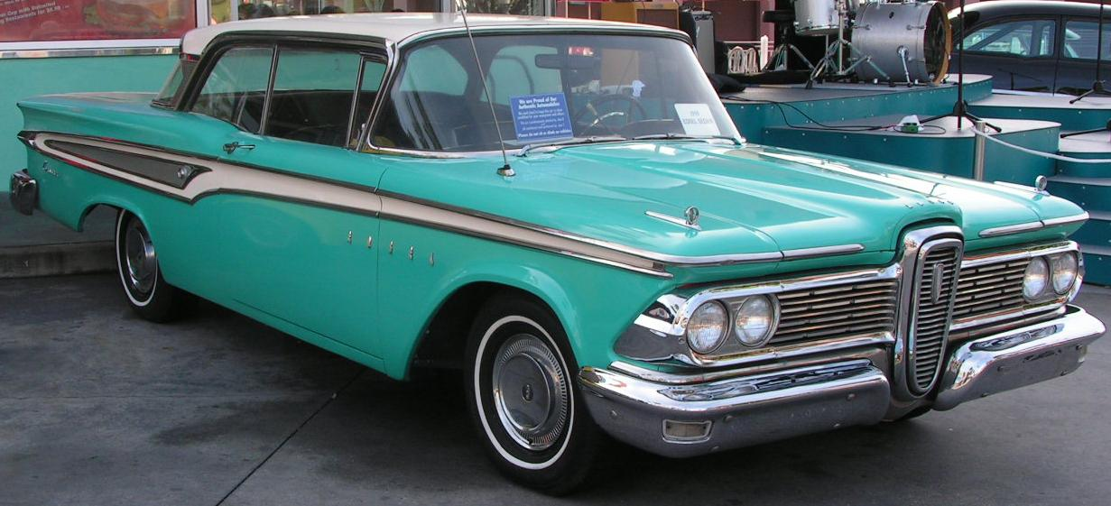 1959 Edsel Corsair coupe photographed @ Universal Studios Orlando.